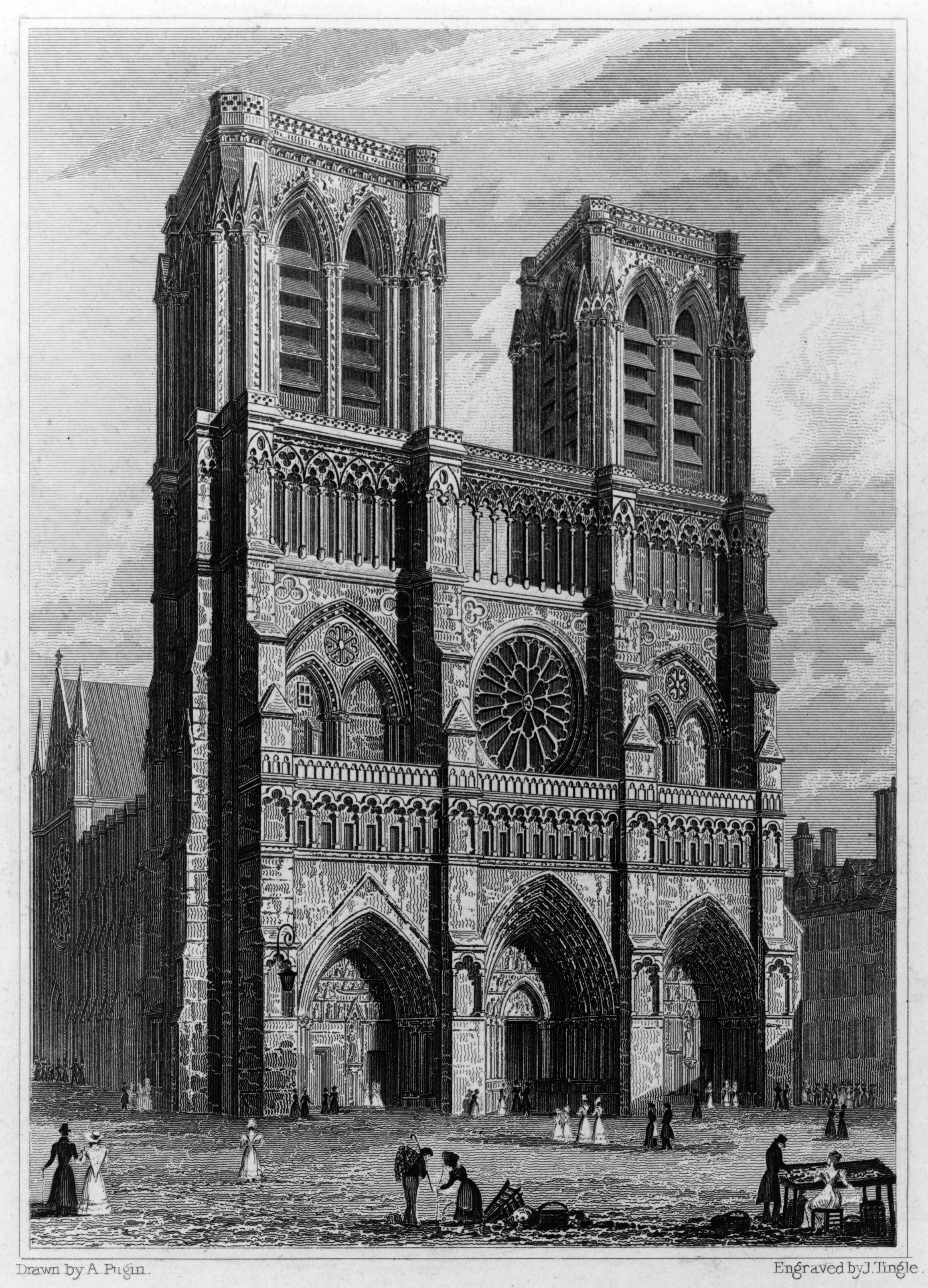 West front of the Church of Notre Dame / Drawn by A. Pugin ; engraved by J. Tingle..